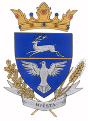 Coat of arms of Nyésta, Hungary